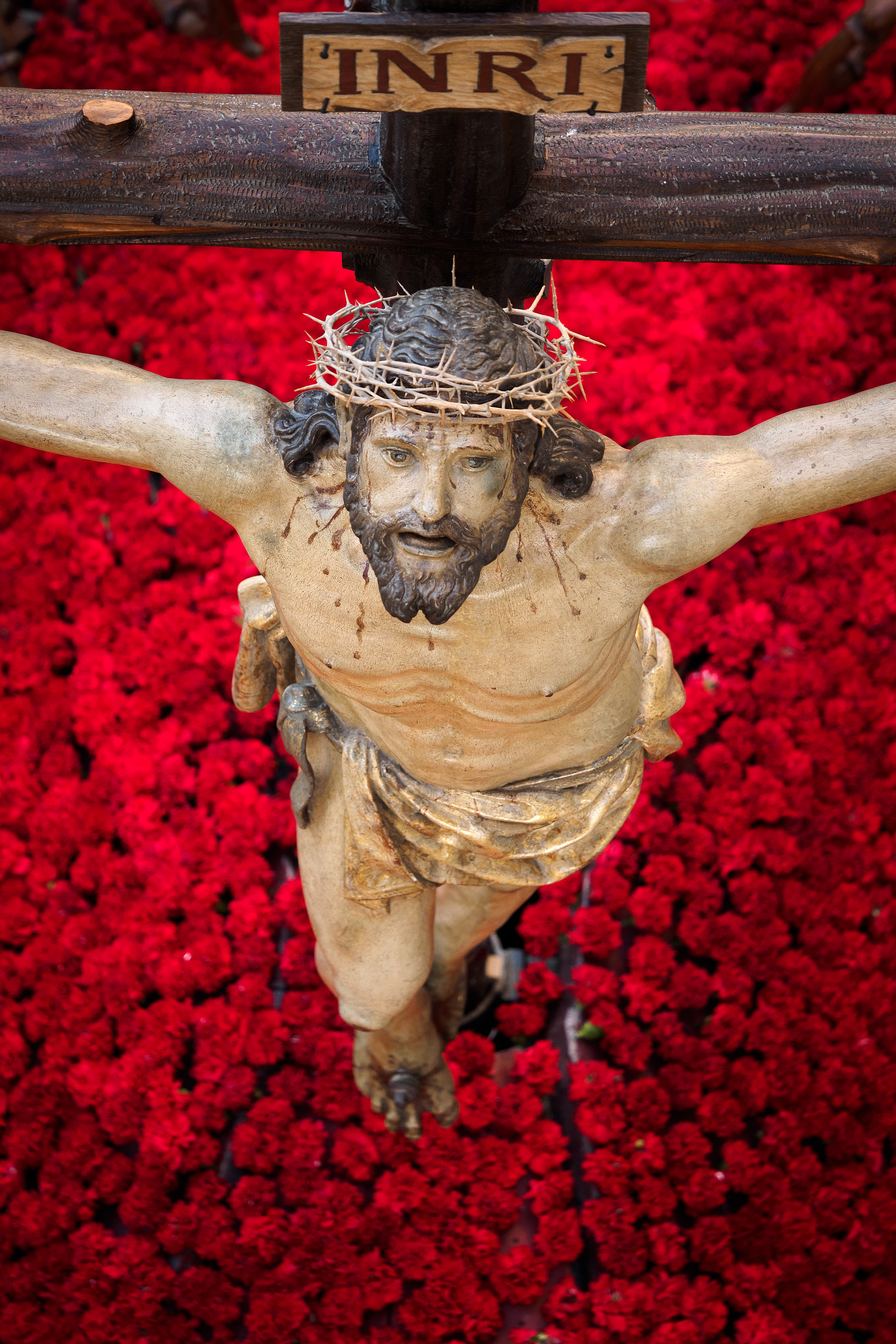 Cristo de la Expiración en la procesión de 2017